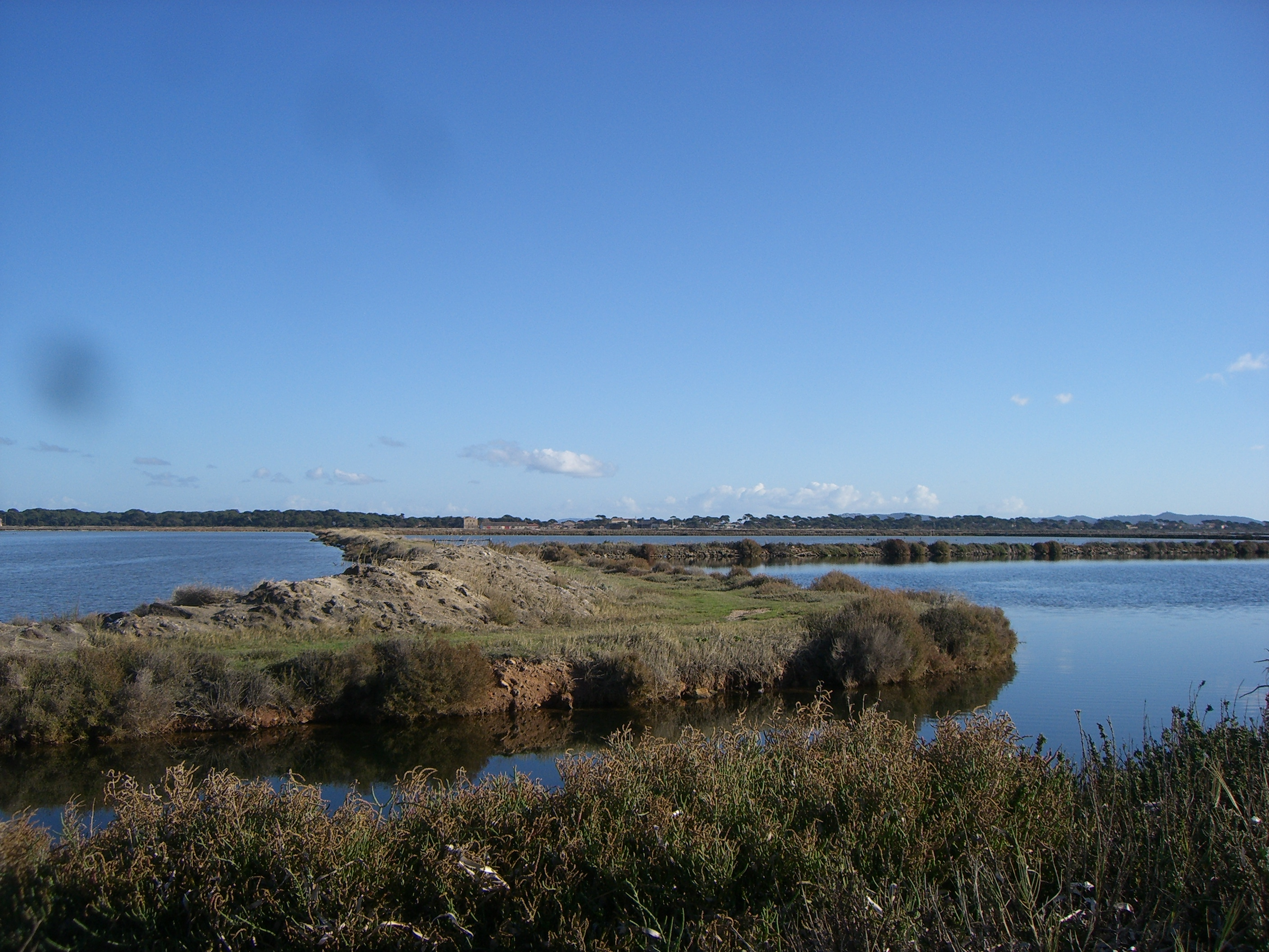 Les Vieux Salins d'Hyères, protected natural area